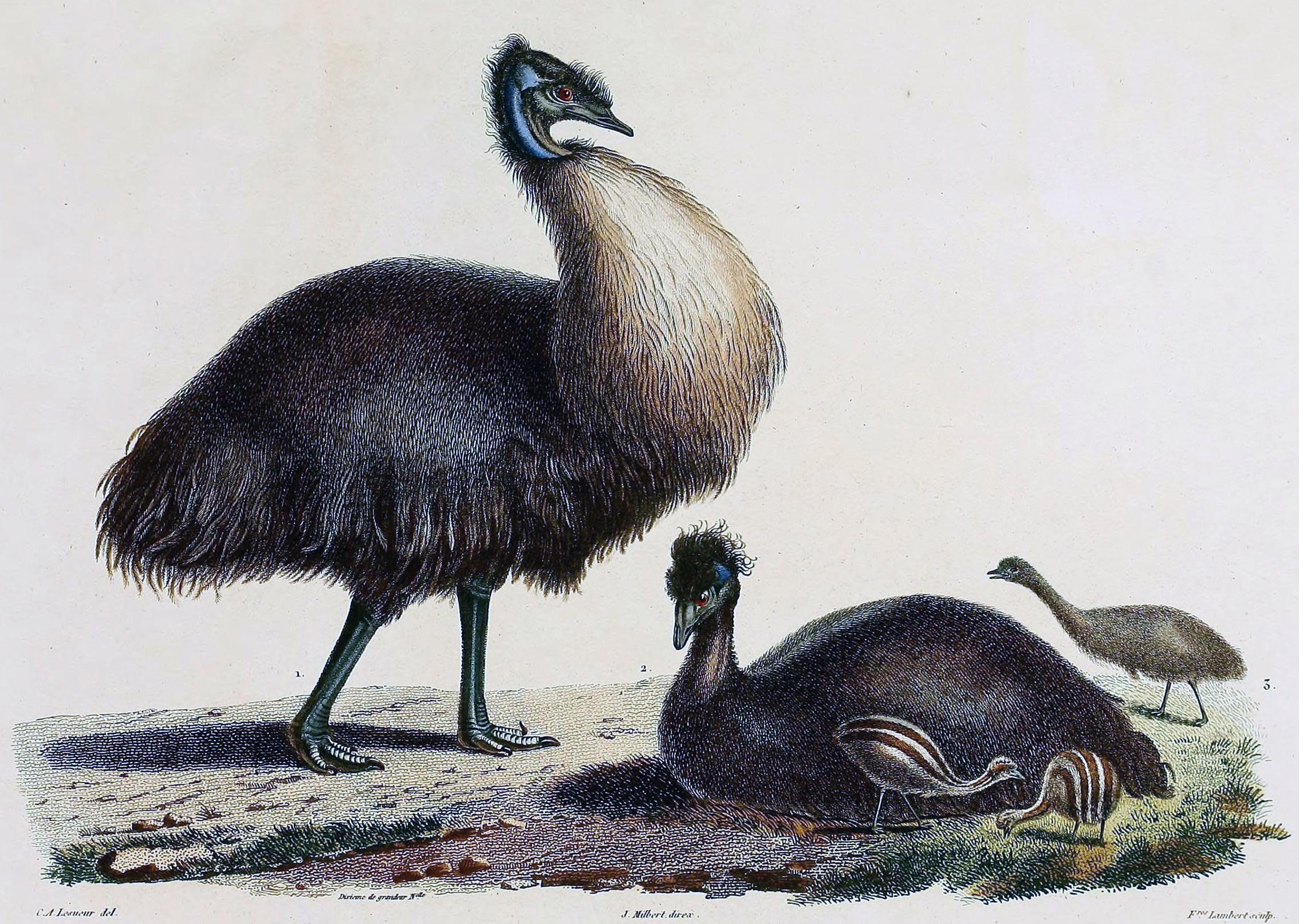 "Black Emus of Kangaroo Island". The large bird is thought to be based on a Kangaroo Island emu, and the small one on the King Island emu, but were thought to be a male and female of the same species at the time.[1] The original hand coloured copper engraving was engraved by F. Lambert after paintings and drawings by Charles-Alexandre Lesueur who was the offical artist of natural history on the Nicholas Baudin Voyage 1800-1804 for 'Péron, François (1775-1810). Voyage de découvertes aux terres Australes ..., sur les corvettes le Géographe, le Naturaliste, et al goëlette la Casuarina, pendant les années 1800, 1801, 1802, 1803 et 1804. Paris: De L'Imprimerie impériale, 1807-16.